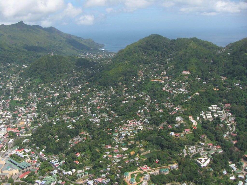 Mahe, Seychelles from the air